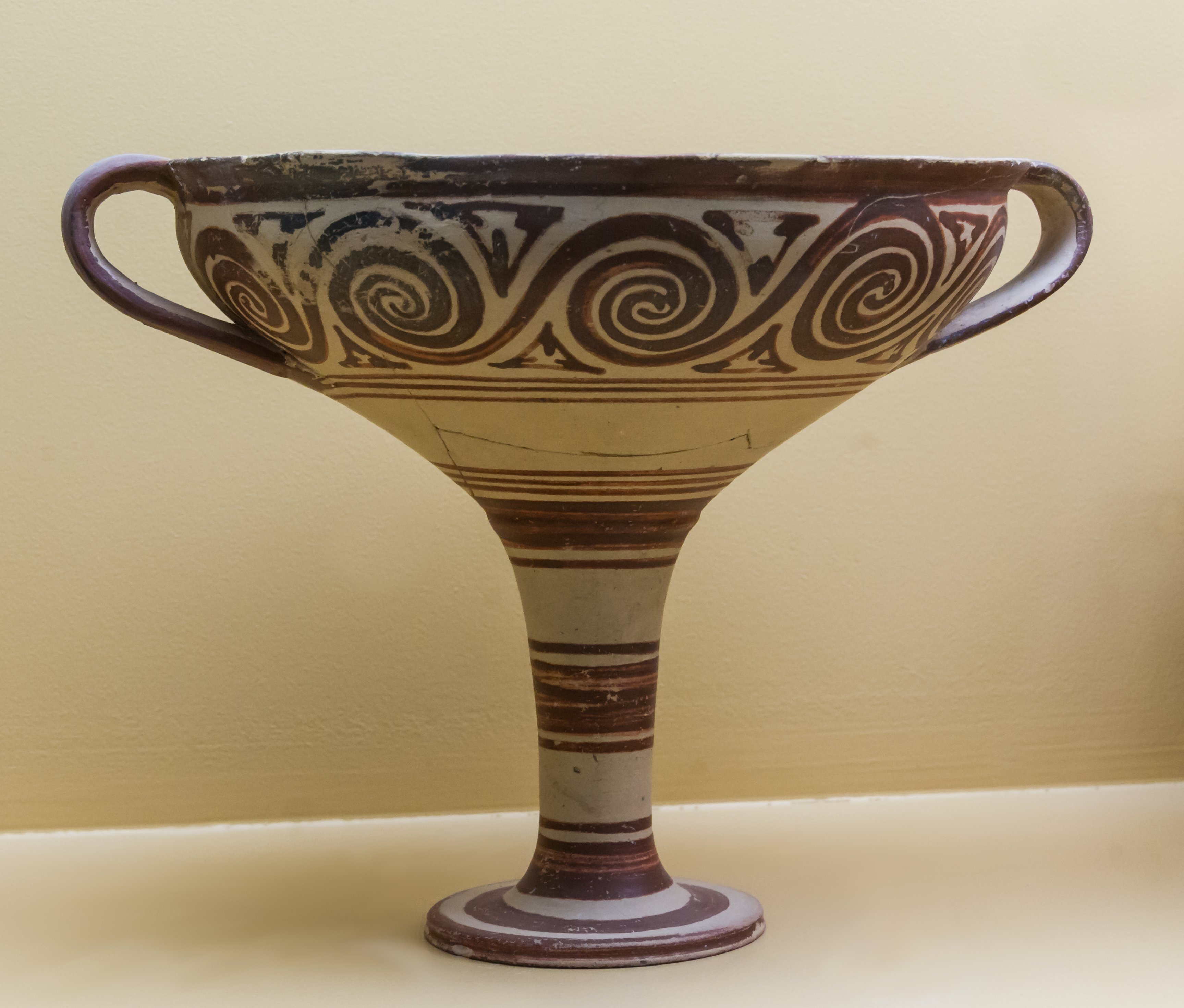 A stemmed kylix decorated with running spirals. 1400 - 1350 BCE. Athens, Greece.